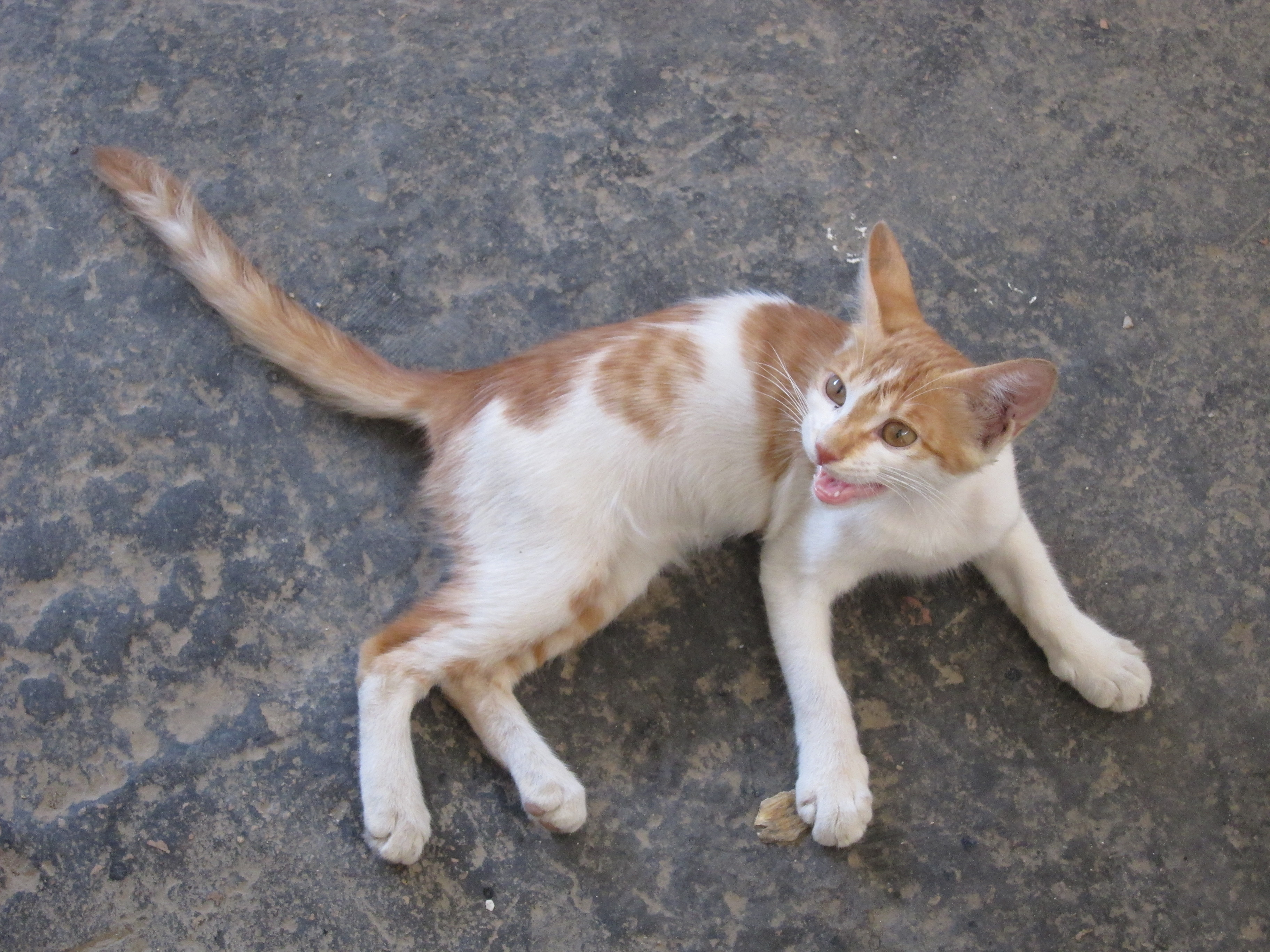 Cat - പൂച്ച